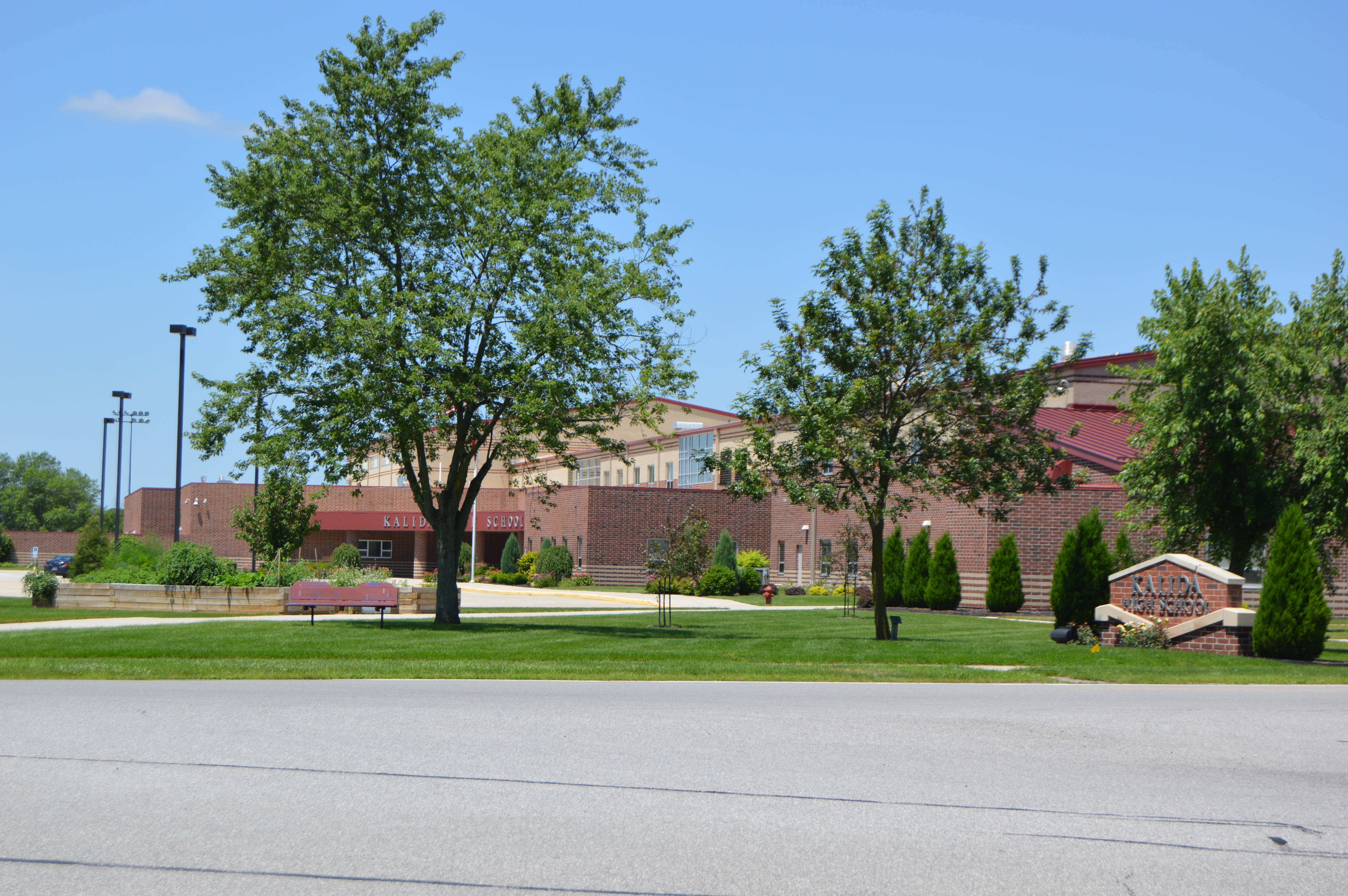 Front of Kalida High School, located along State Route 115 at 301 N. Third Street in Kalida, Ohio, United States.